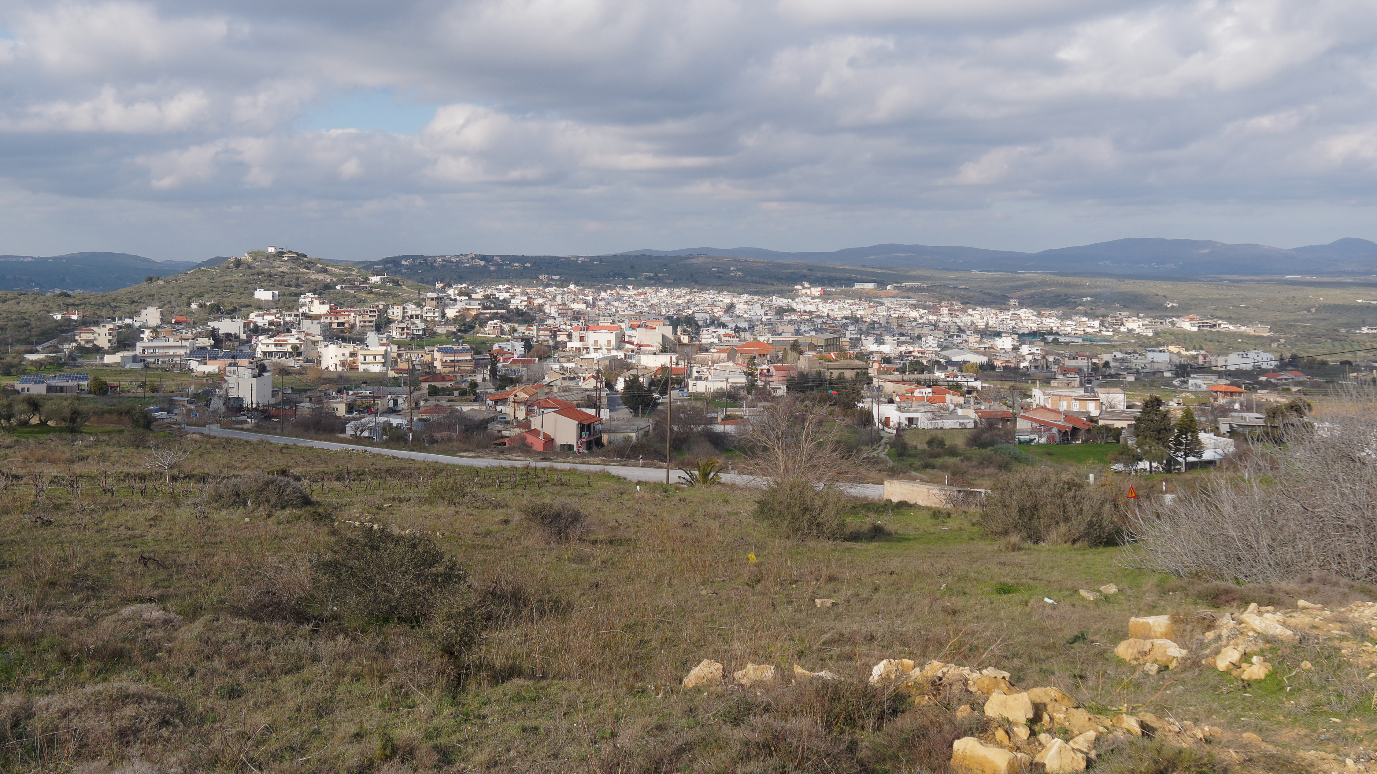 View of Arkalochori and Gasi (the neighbourhood at the front) from south.